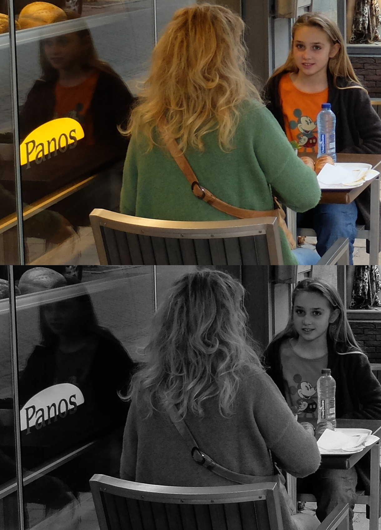 color or black and white